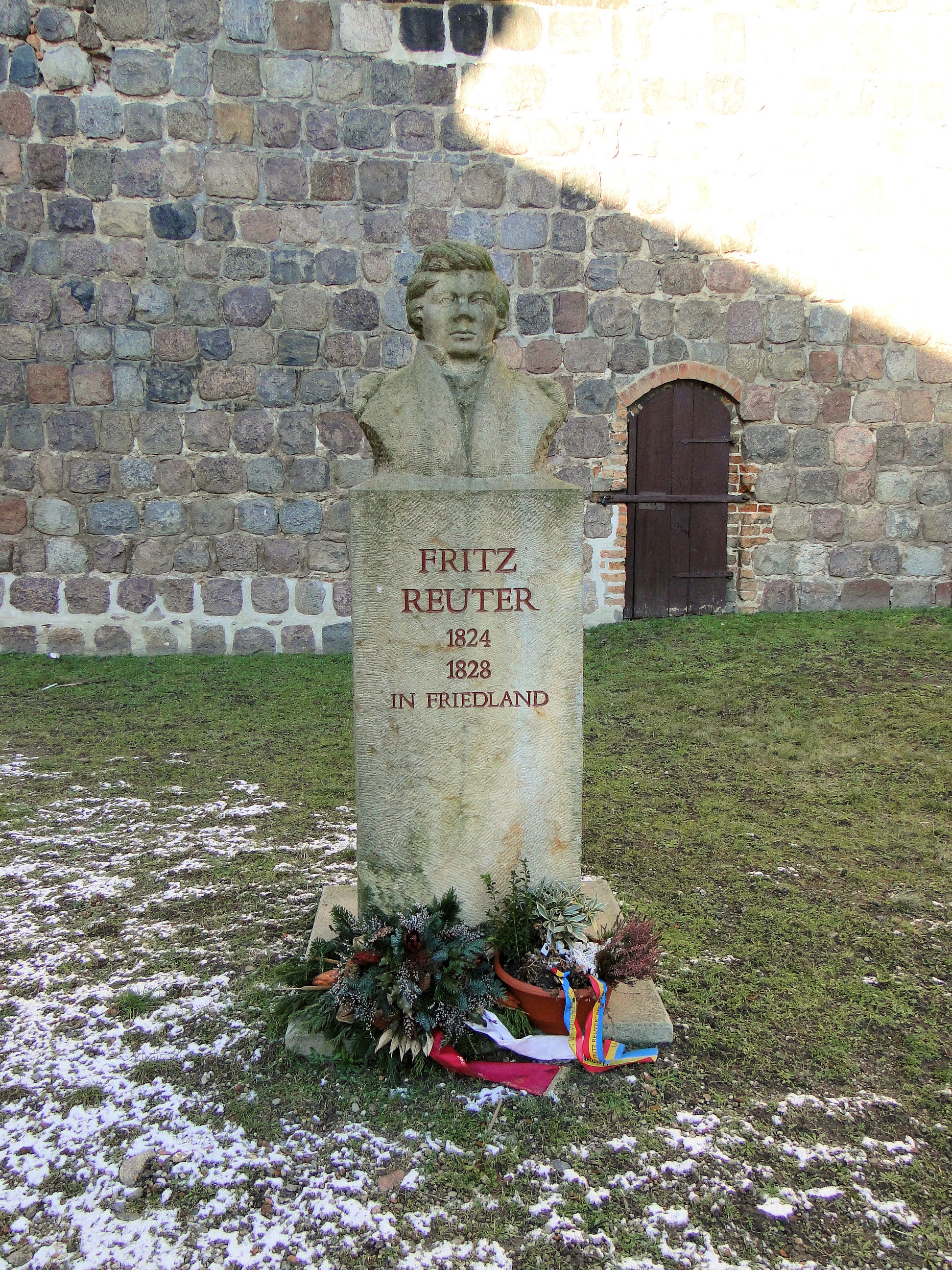 Memorial for Fritz Reuter in Friedland, district Mecklenburg-Strelitz, Mecklenburg-Vorpommern, Germany